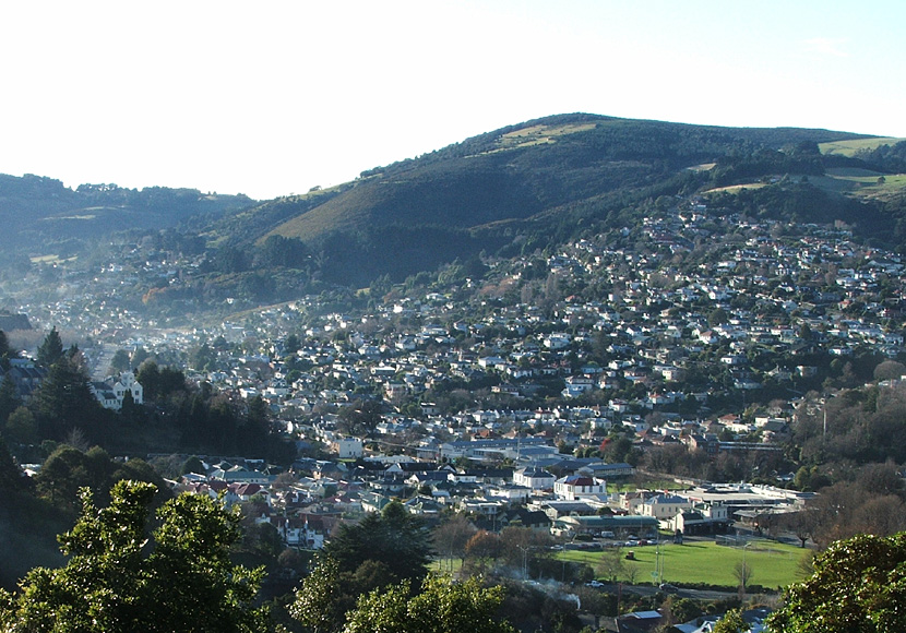 Photograph of Opoho, The Gardens Corner and North East Valley, Dunedin, New Zealand, taken from Prospect Park.